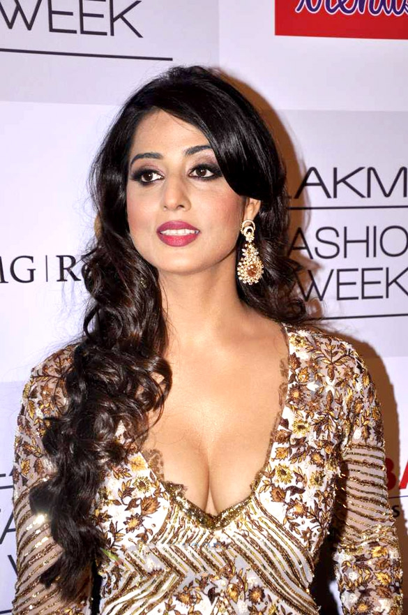 Mahie Gill at the Lakme Fashion Week 2013 - Day 3